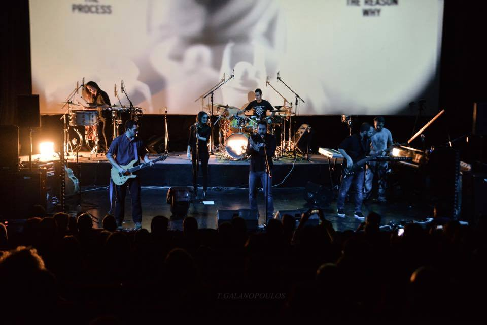 live-1